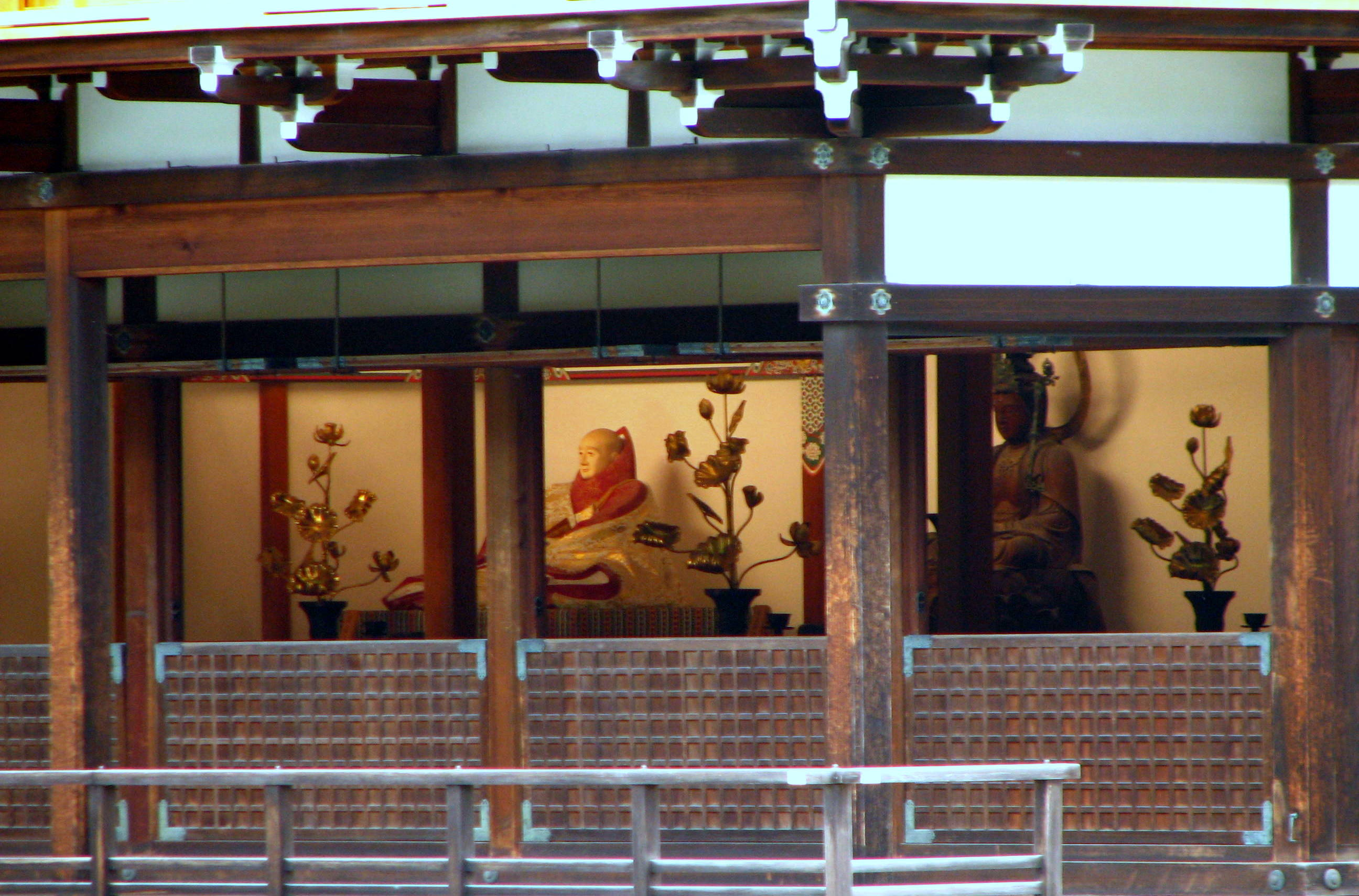 Inside of Kinkaku-ji, Kyoto, Kyoto Prefecture, Japan